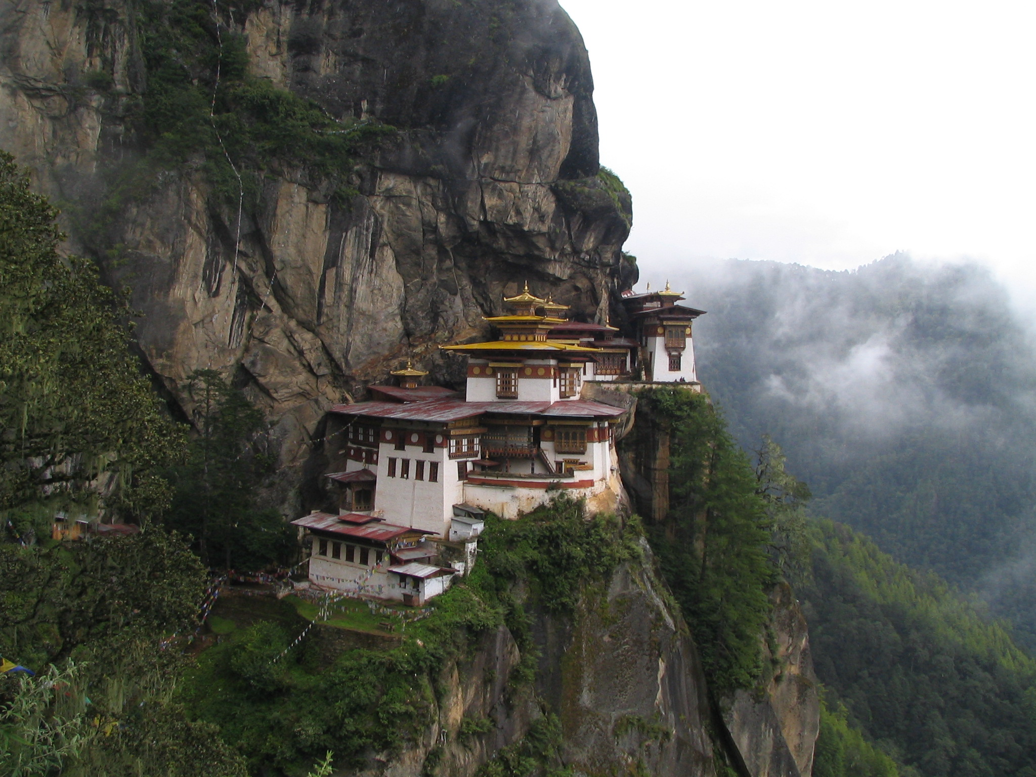 Taktshang Monastery, Bhutan